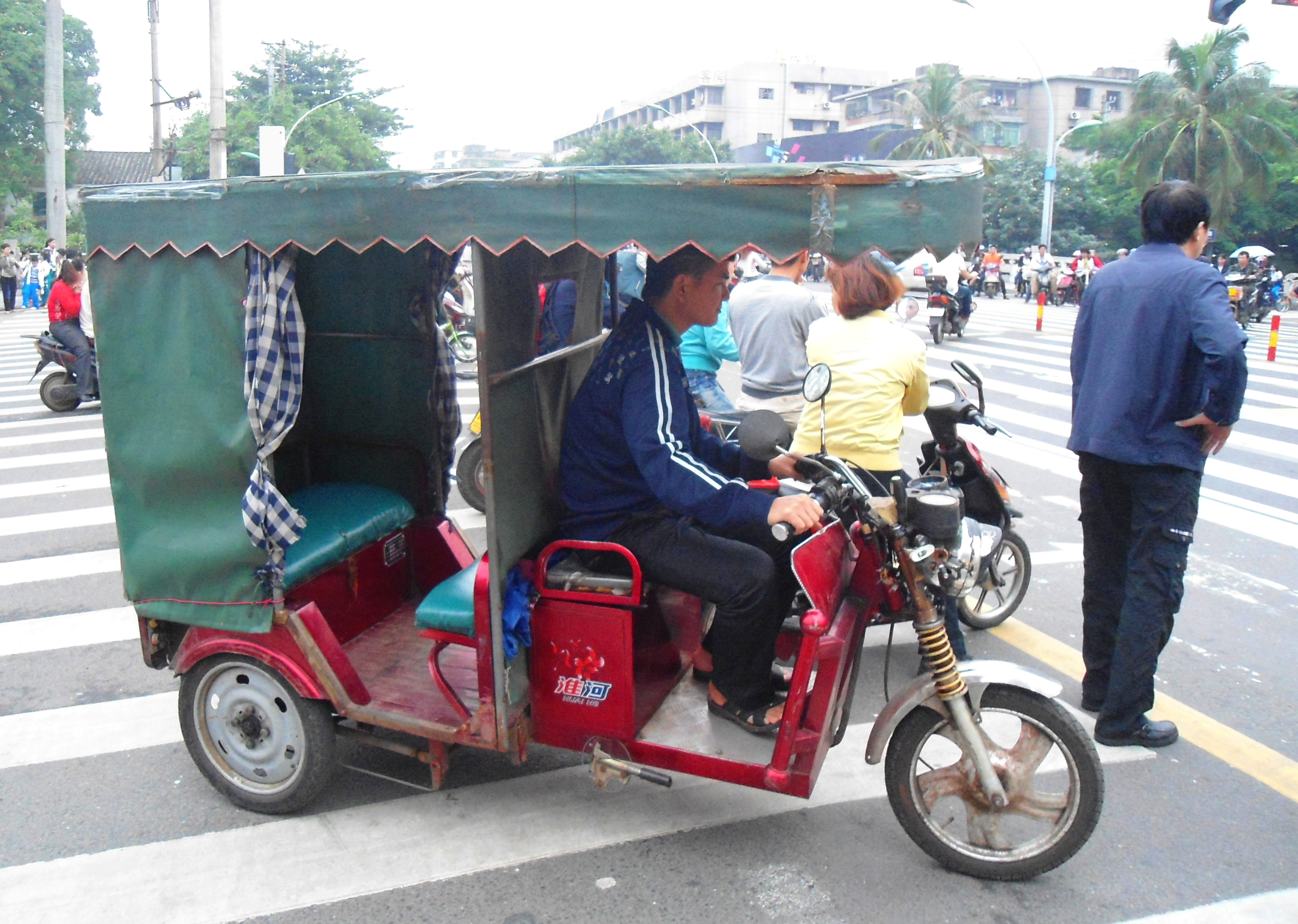 An auto rickshaw in Haikou, Hainan, China. This model is invariably red in colour, and has a metal body.